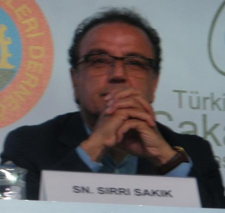 Sırrı Sakık, Republic of Turkey politician.